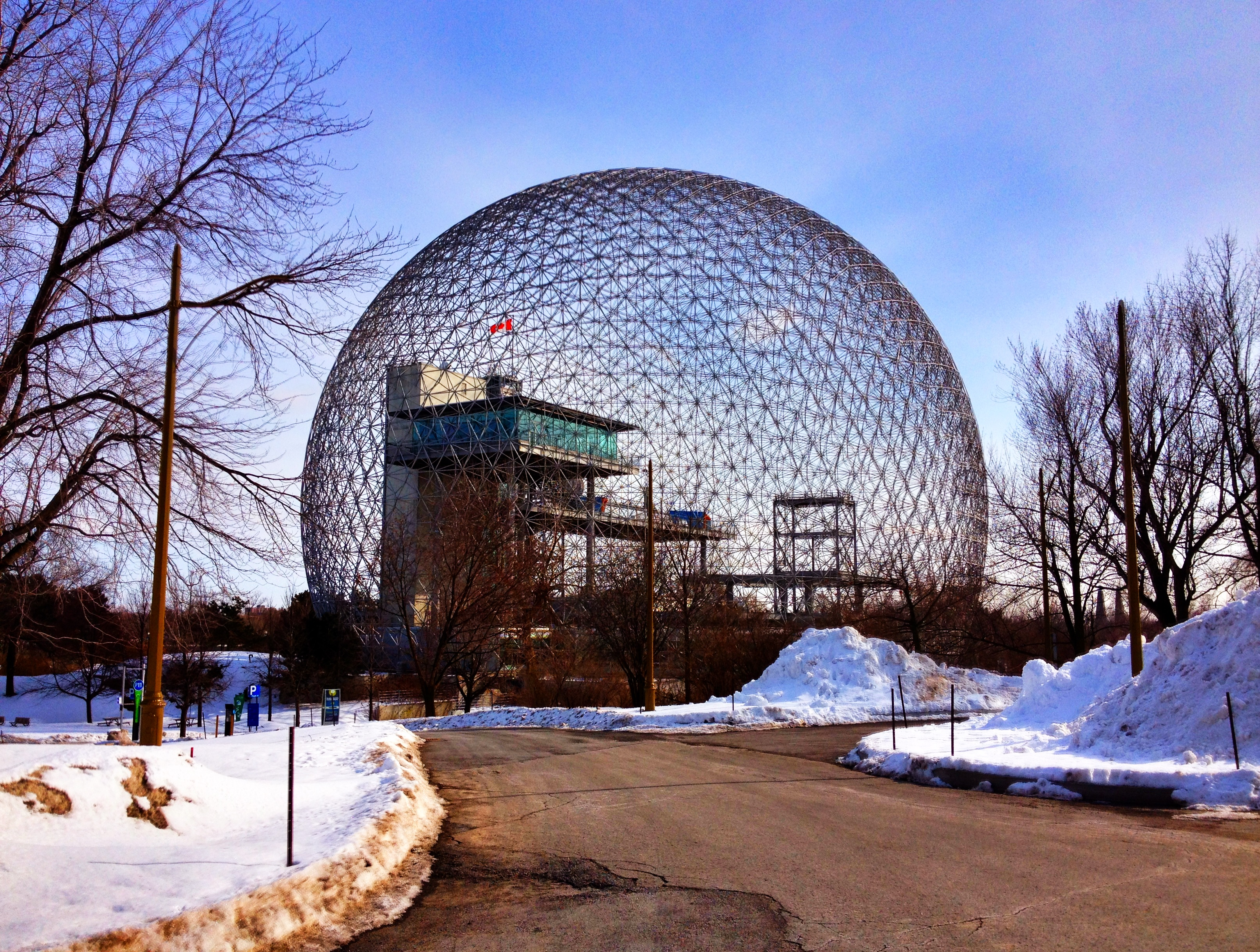 A picture of the Montreal Biosphere in March of 2012.